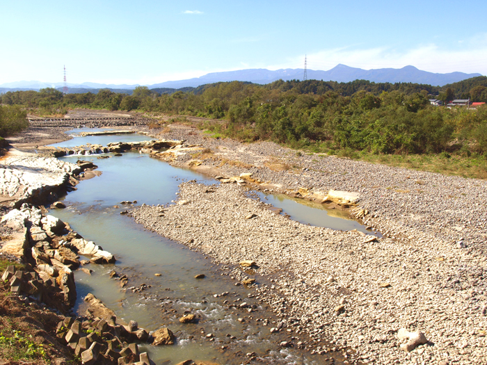 The Isawa River in November 2007 from Prefectural Road 235 in Kanegasaki. Mt. Yakeishi can be seen in the distance.